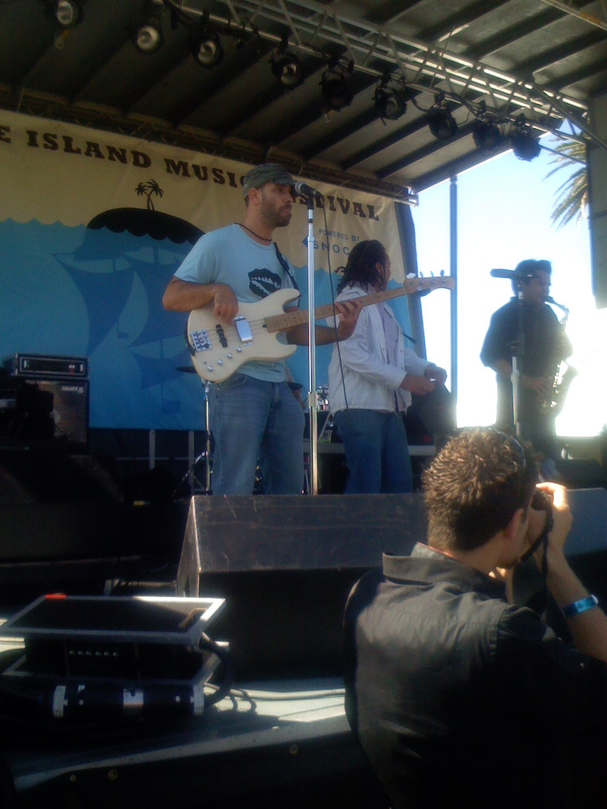 Mocean Worker performing live